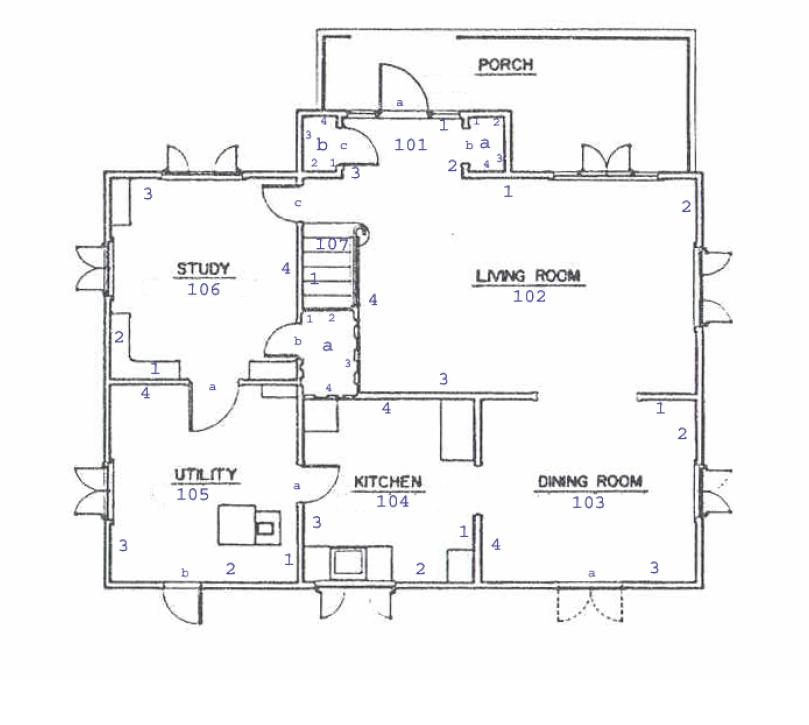 Floor plan of the Century of Progress (Wiebolt-Armco House)